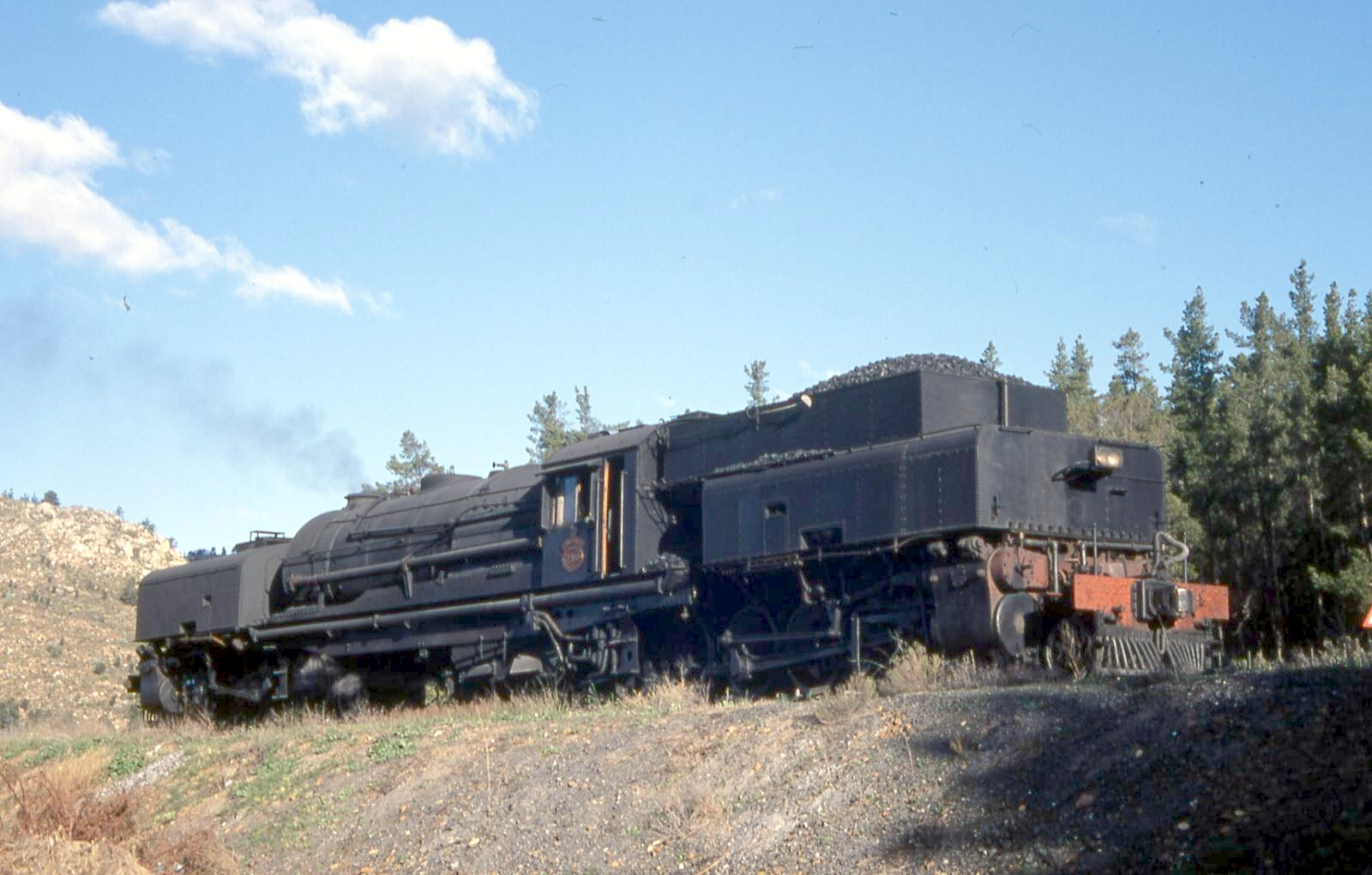 SAR Class GL 2351 (4-8-2+2-8-4) Location: Camfer, Montagu Pass